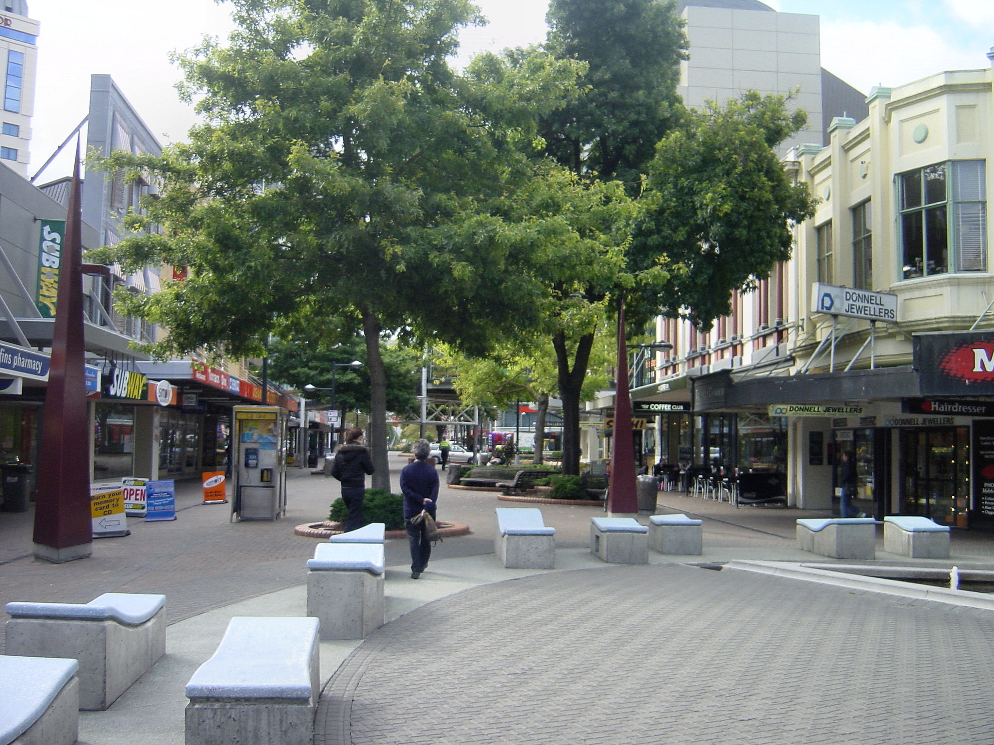 High Street, looking south-east from the Hereford Street end. The seats belong to the $700k fountain that was in this location for only a few years.